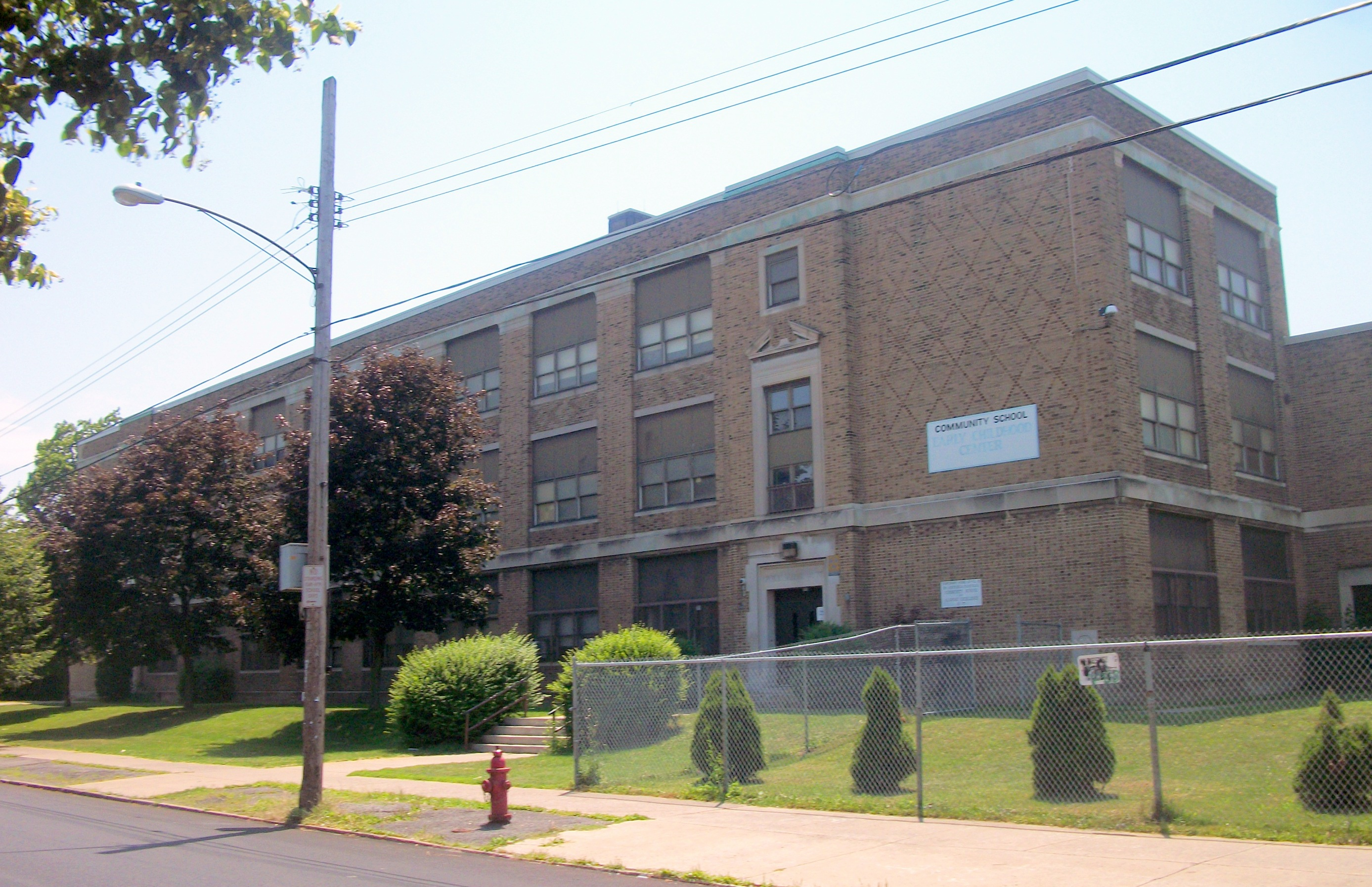 School 77 370 Normal Avenue Buffalo, NY 14213